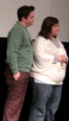 Ben Falcone and Melissa McCarthy